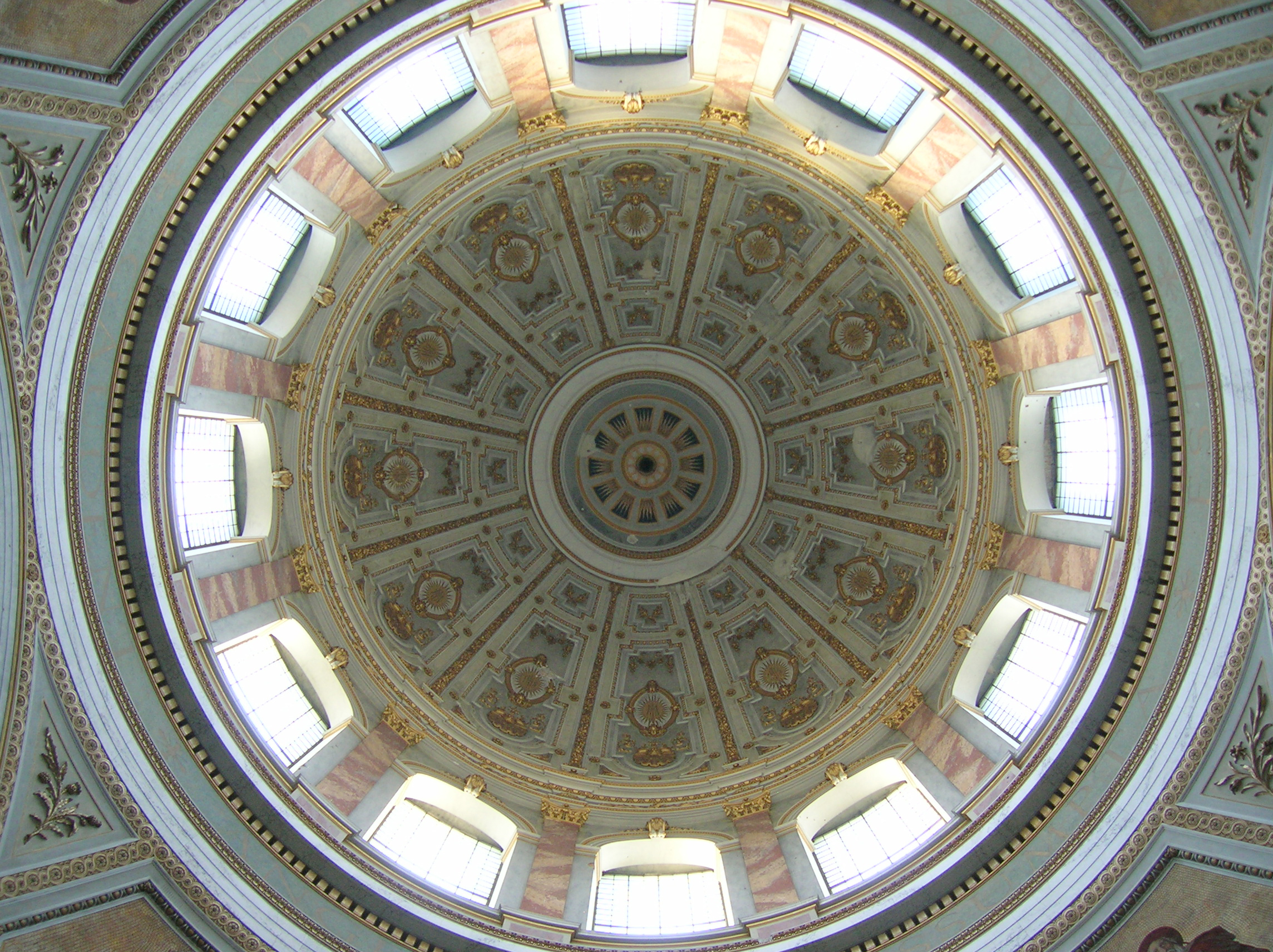 The interior dome of the Esztergom Basilica